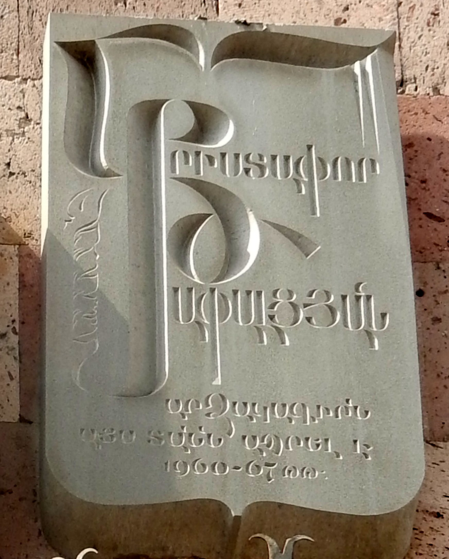 Kristapor Tapaltsyan's plaque